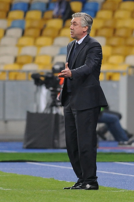 Coach Carlo Ancelotti Paris SG